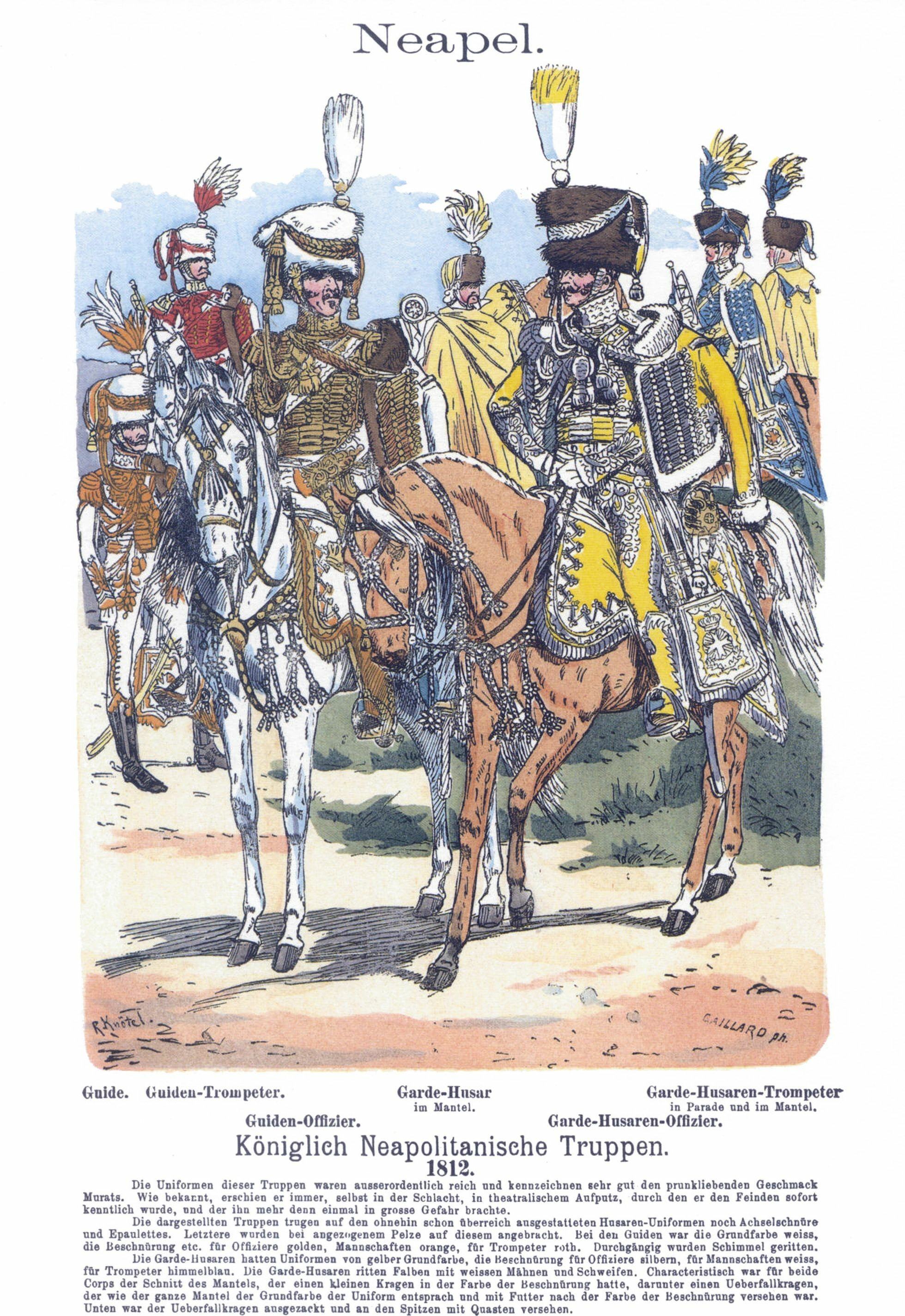 Soldiers of the Kingdom of Naples of 1812, Guides on the left and Guard Hussars at right